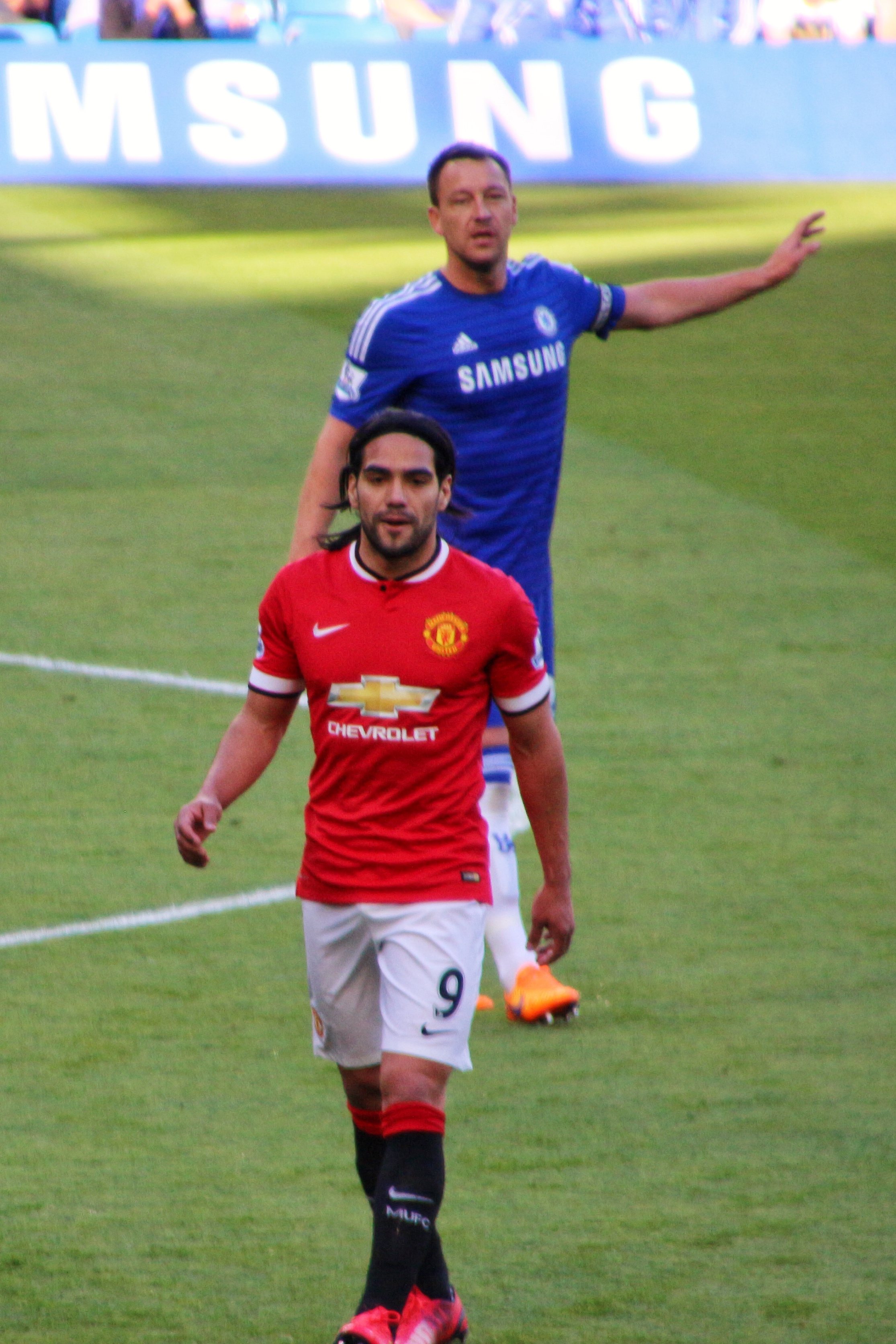 Chelsea 1 Man Utd 0